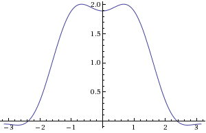 Plot of f(x)= 1.0000000000 + 1.1913785723cos(x) − 0.0793018558cos(2x) − 0.2171442026cos(3x) − 0.0014526076cos(4x) on x = [-pi, pi]